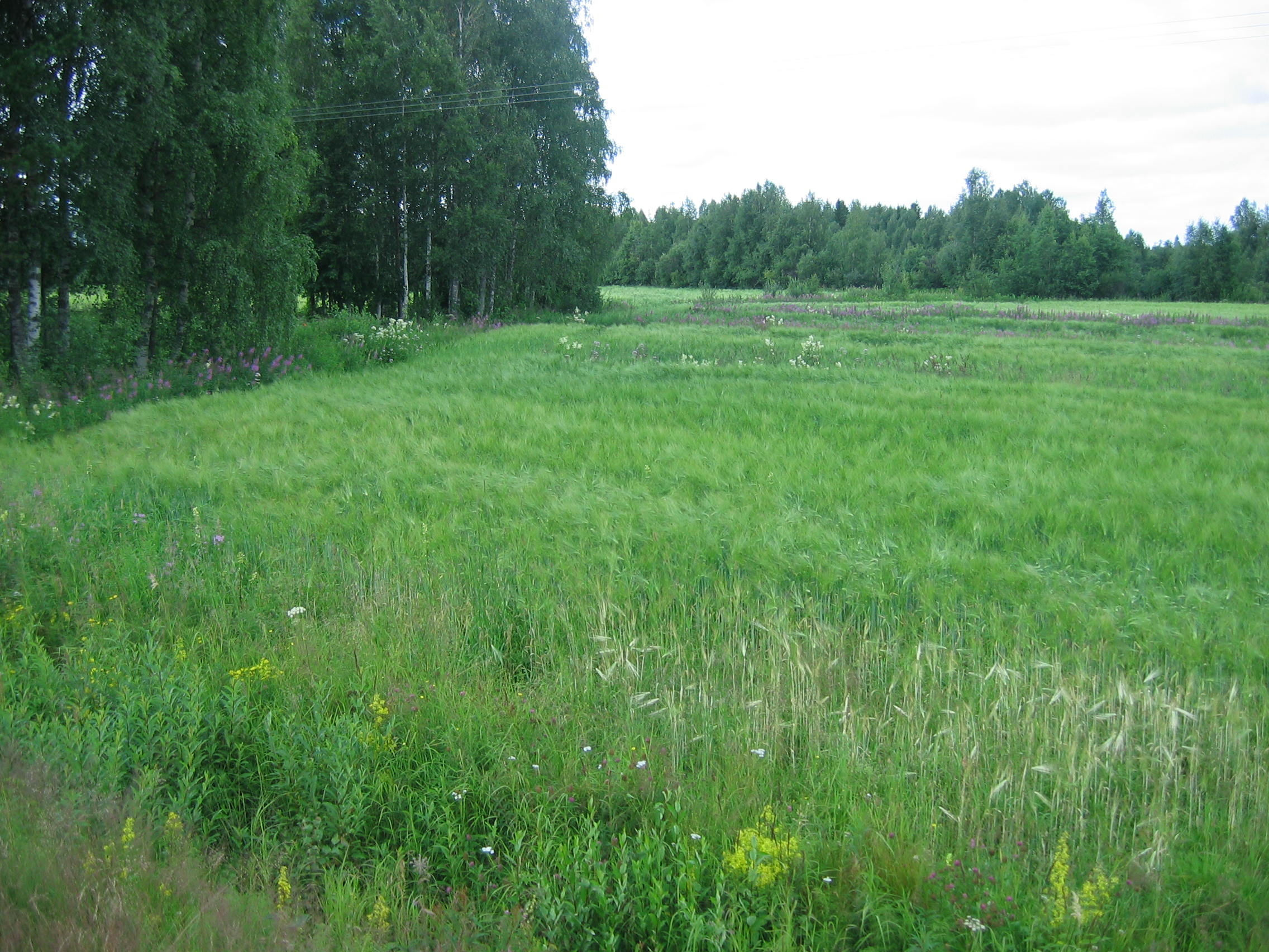 A barley field in Autioperä next to the local road to Hetekylä in Pudasjärvi, Finland.